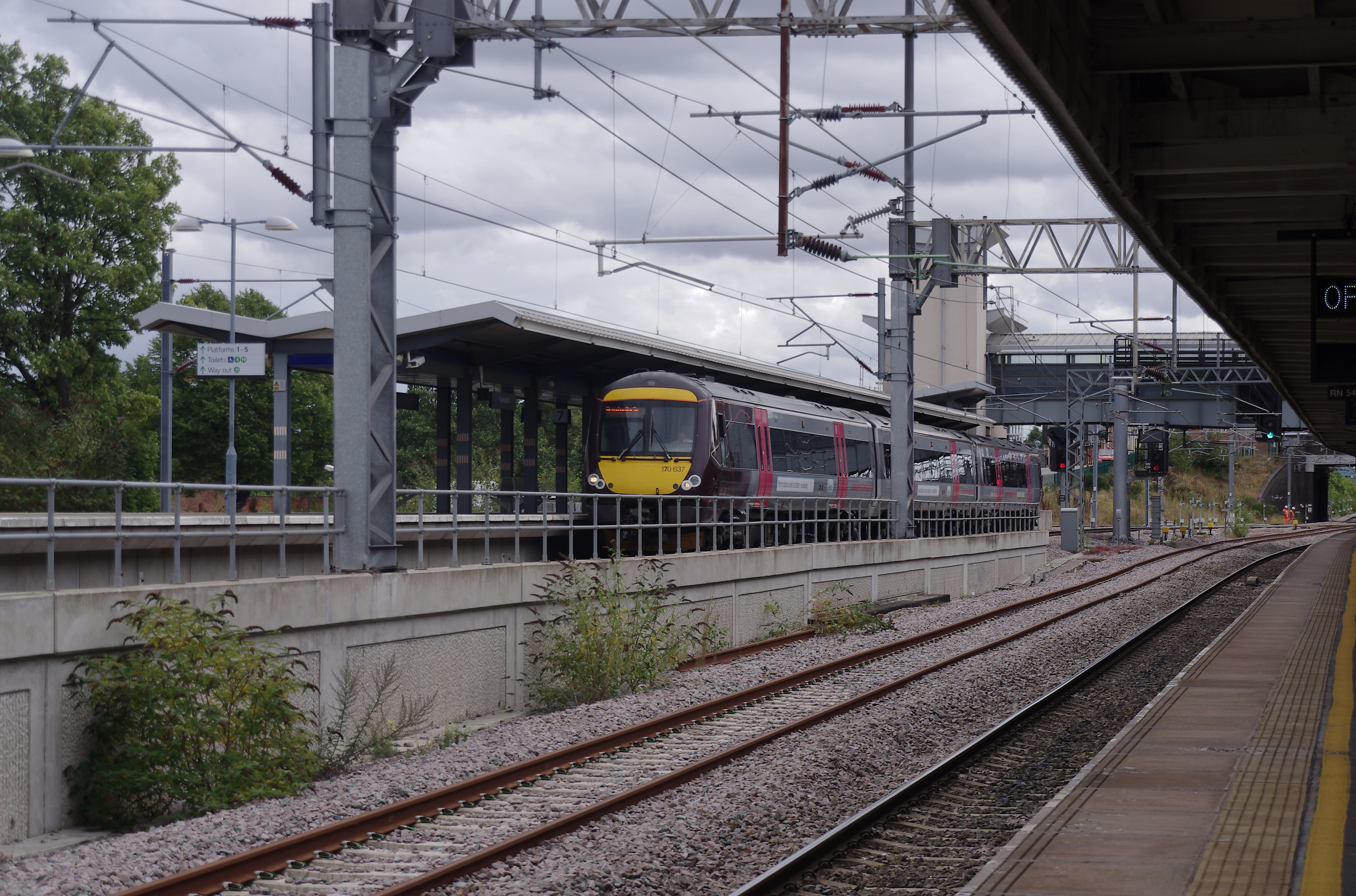 CrossCountry Turbostar DMU 170637 stands at Nuneaton with a service for Birmingham.